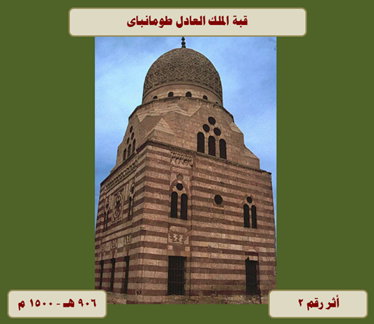 قبة الملك العادل طومان باى